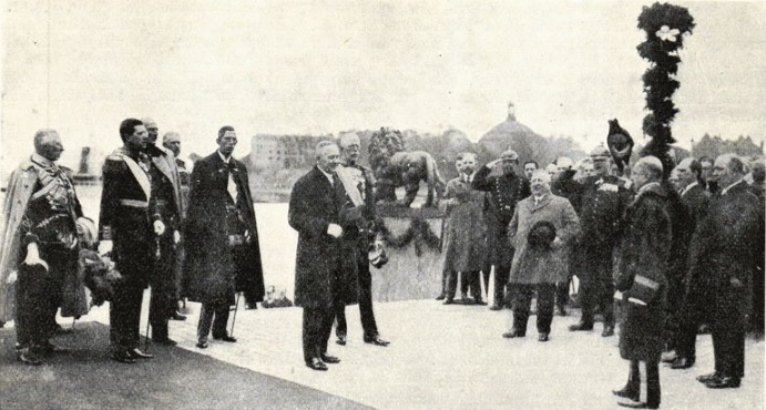 The president Relander disembarked at Logårdstrappan and is welcomed to Stockholm by the Over-Governor of Stockholm C. Hederstierna. At the President's side is King Gustaf, Prince Wilhelm, Prince Carl, the Crown Prince and Prince Eugen. Behind the Over-Governor is cabinet minister P. A. Hansson and to the right of him Prime Minister R. Sandler. In the middle of the picture is Stockholm City Council Chairman, Director A. Cederborg and behind him police chief G. Hårleman.